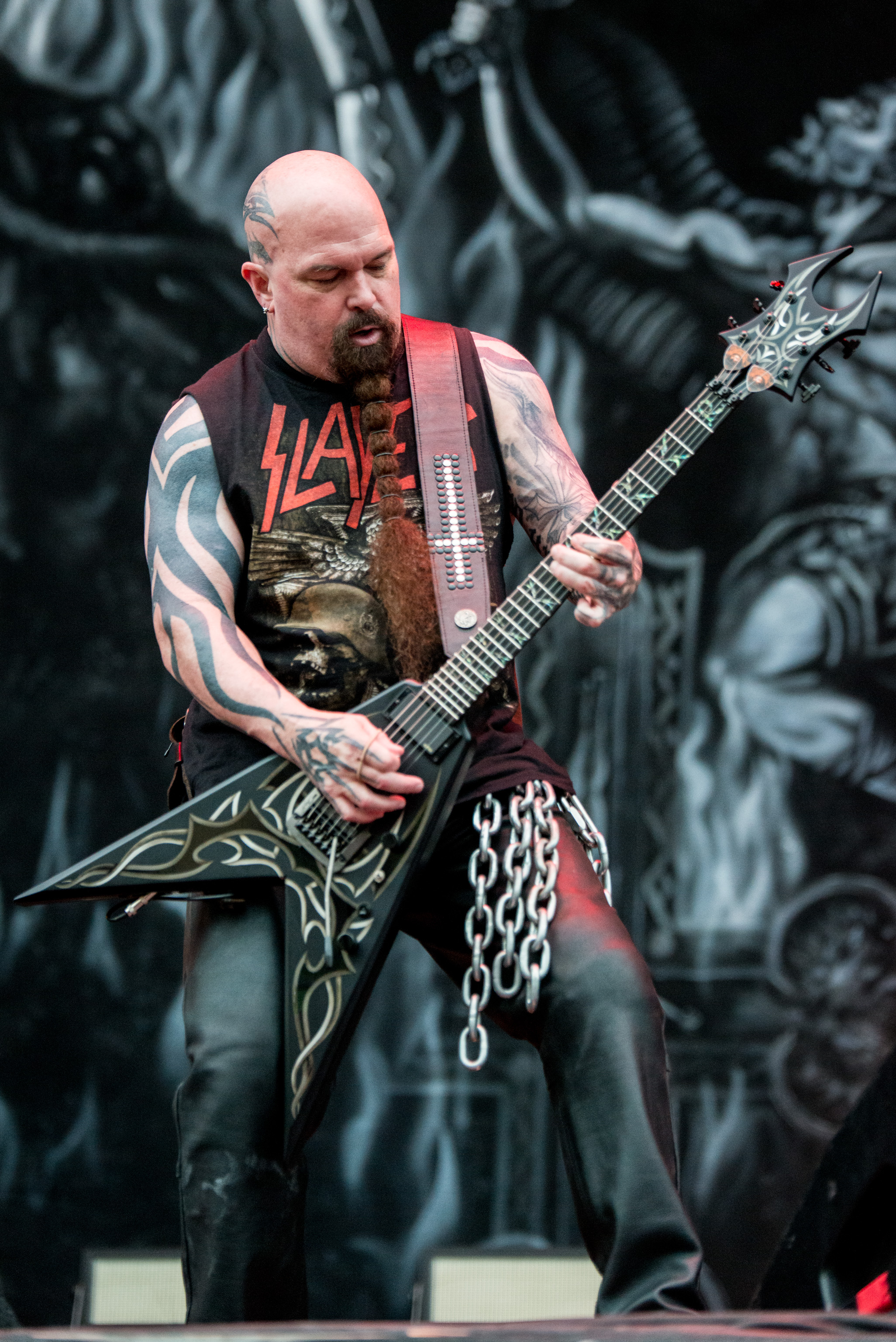 Slayer Live @ Rockavaria 2016